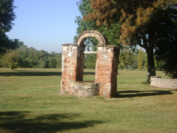 Aljibe de la estancia de Don Rosendo Zelaya Buenos Aires